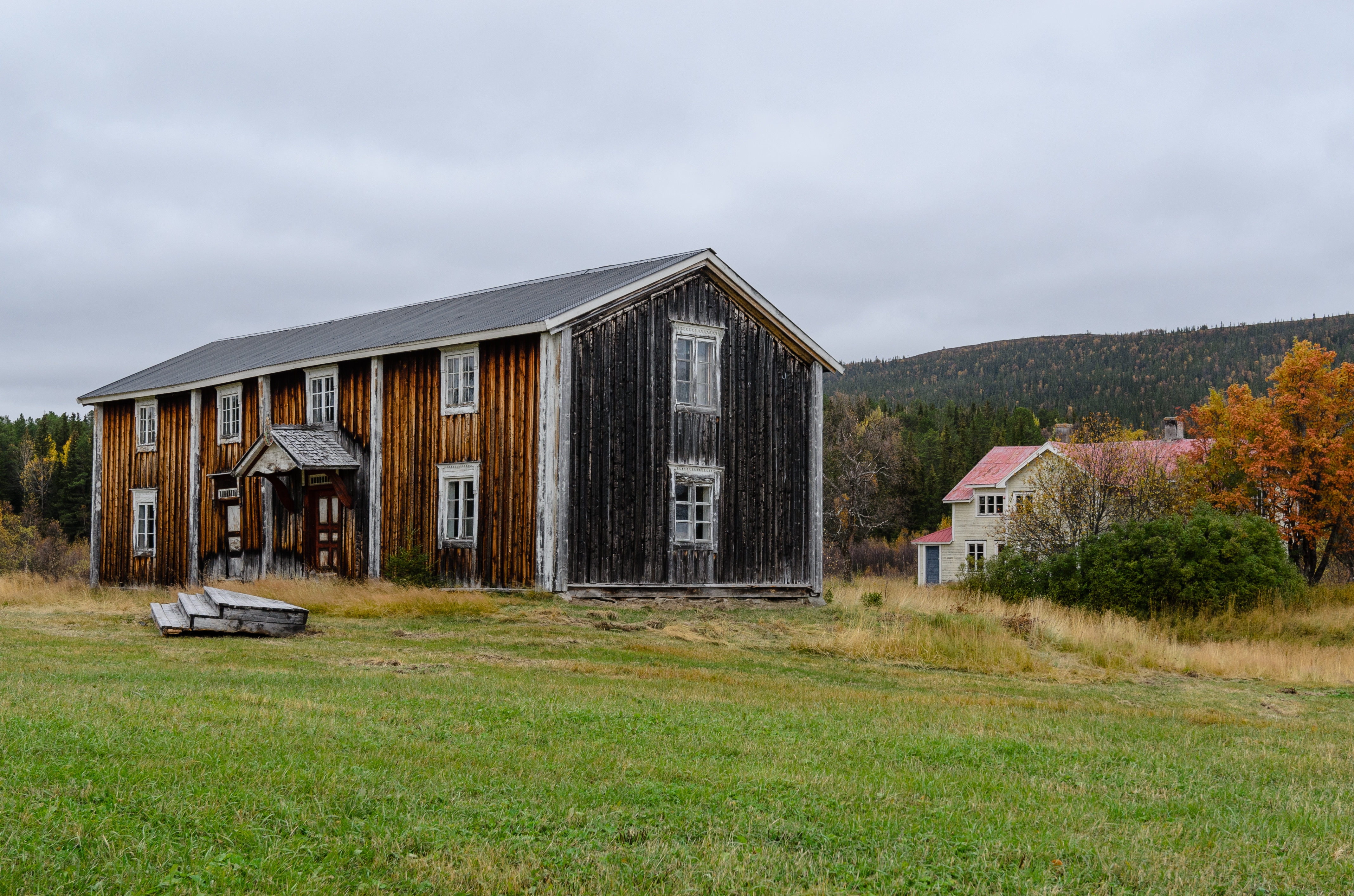 Abandoned farmhouses in Ljungdalen, a small village in Berg Municipality, Jämtland County, Sweden.